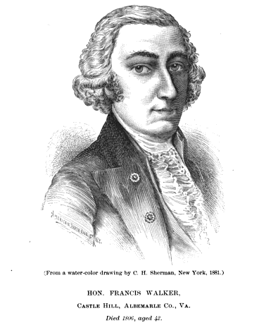 Engraved portrait of Hon. Francis Walker, U.S. Representative from Virginia, from a watercolor by C. H. Sherman, New York, 1881. The portrait was published in 'Genealogy of the Page Family of Virginia,' written by Richard Channing Moore Page, and published at New York City by the Publishers' Printing Company, 1893.